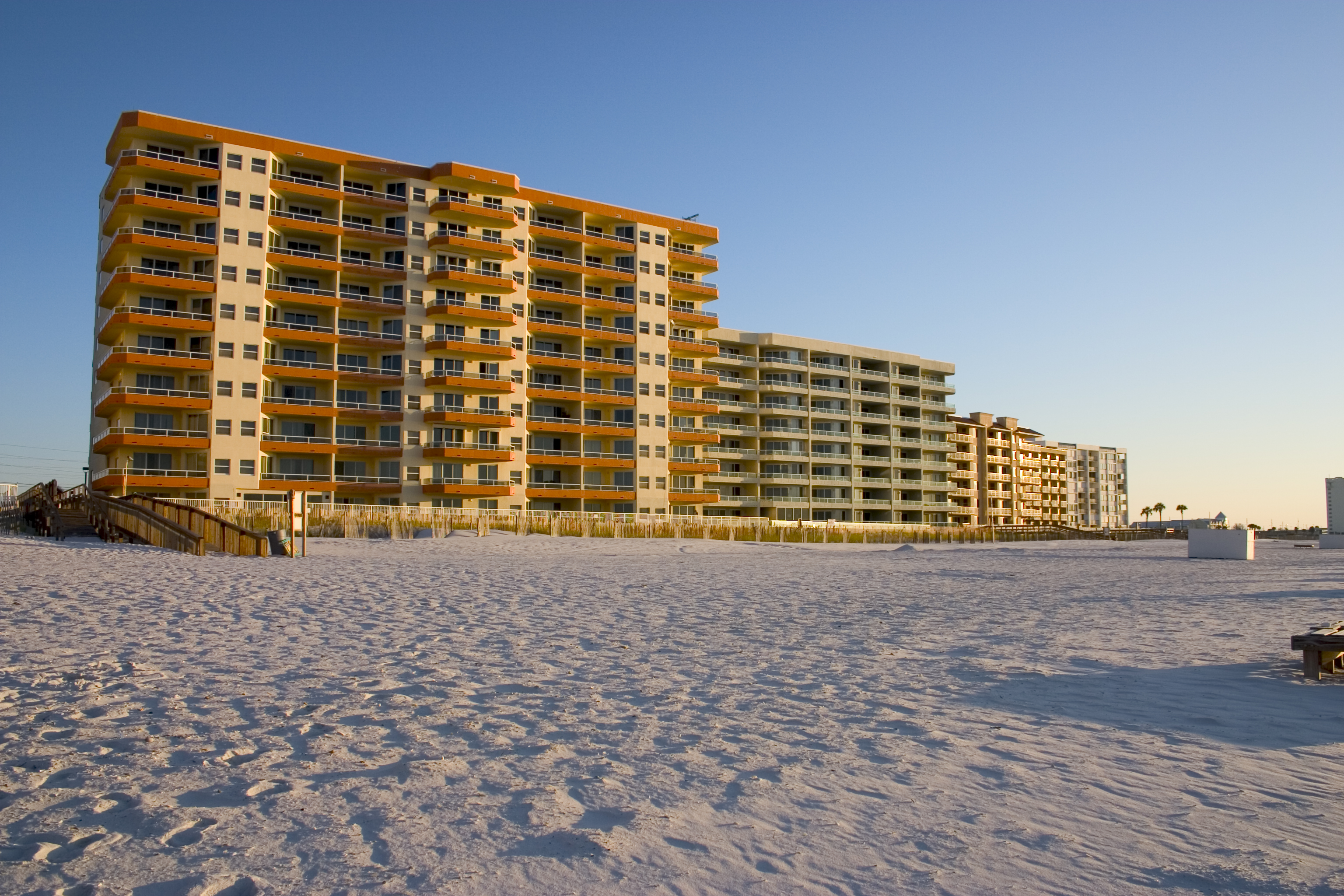 Condos along the beach in Orange Beach Alabama